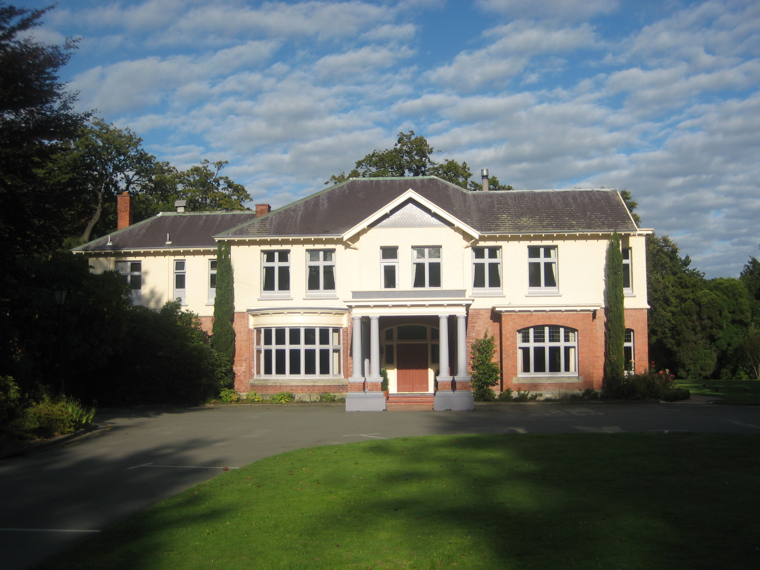 The Ilam Homestead, home of the University of Canterbury Staff Club. In the 1950s it served as the home of the Rector of what was then called Canterbury College. In 1954 the then-Rector's daughter, Juliet Hulme and her friend Pauline Parker bludgeoned to death Parker's mother. This is the plot of the film Heavenly Creatures. A number of scenes in the film were filmed in the grounds.